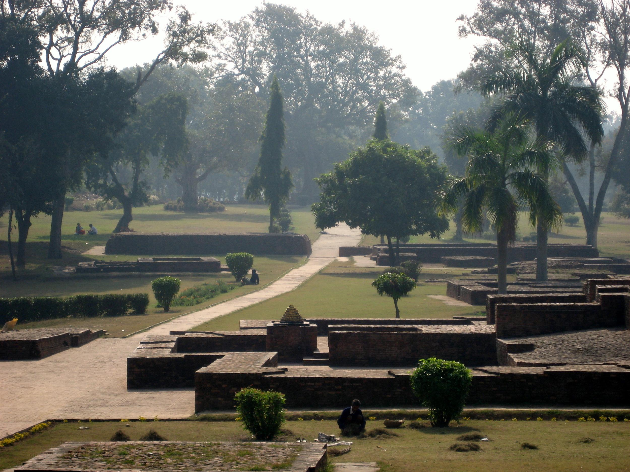 View on a section of Jetavana Monastery (in Sravasti, India), showing part (the entry) of the Mulagandhakuti, and the Anandabodhi tree in the background.